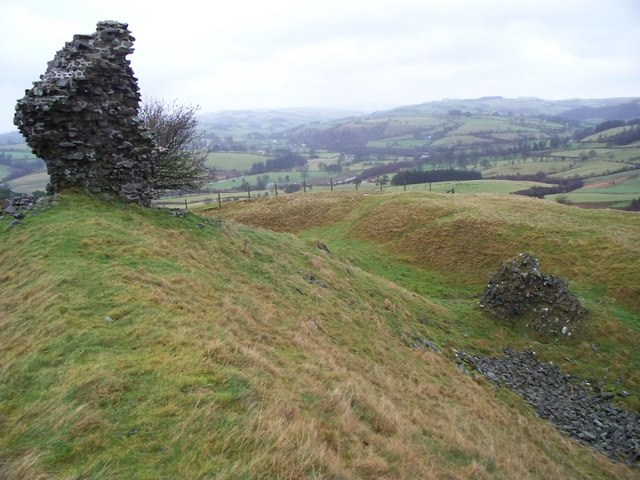 Castell Tinboeth, near to Llananno, Powys, Great Britain. Remains of the gatehouse and great ditch surrounding the 13th century castle probably built by the Mortimers on the former site of an Iron Age hillfort.